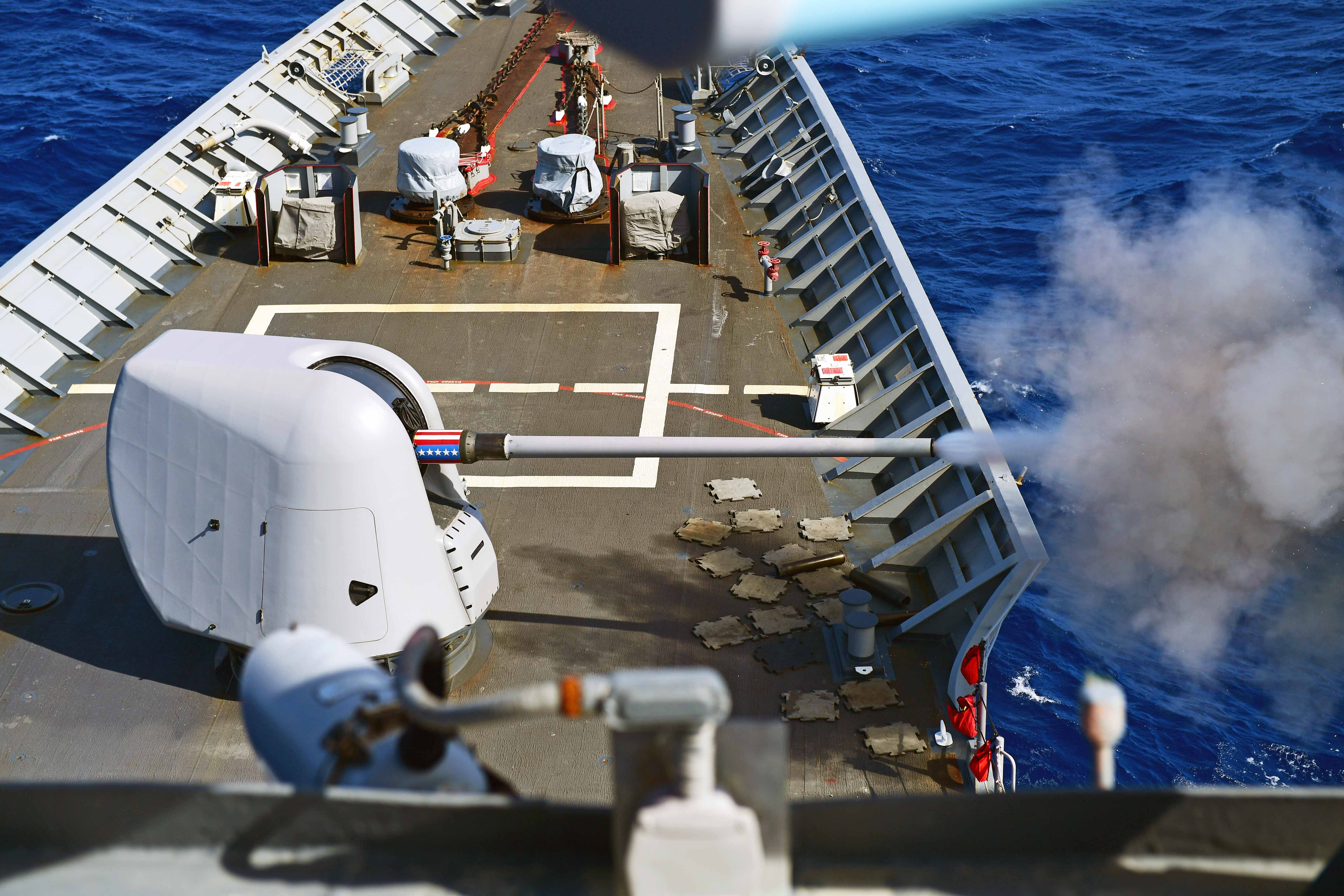 ATLANTIC OCEAN (Jan. 23, 2017) The guided-missile cruiser USS Hué City (CG 66) fires an MK-45 5-inch gun during a live-fire exercise. Hué City is deployed with the George H.W. Bush Carrier Strike Group in support of maritime security operations and theater security cooperation efforts in the U.S. 5th and 6th Fleet areas of responsibility. (U.S. Navy photo by Mass Communication Specialist 2nd Class Kayla Cosby/Released)170123-N-VK873-039 Join the conversation: navylive.dodlive.mil